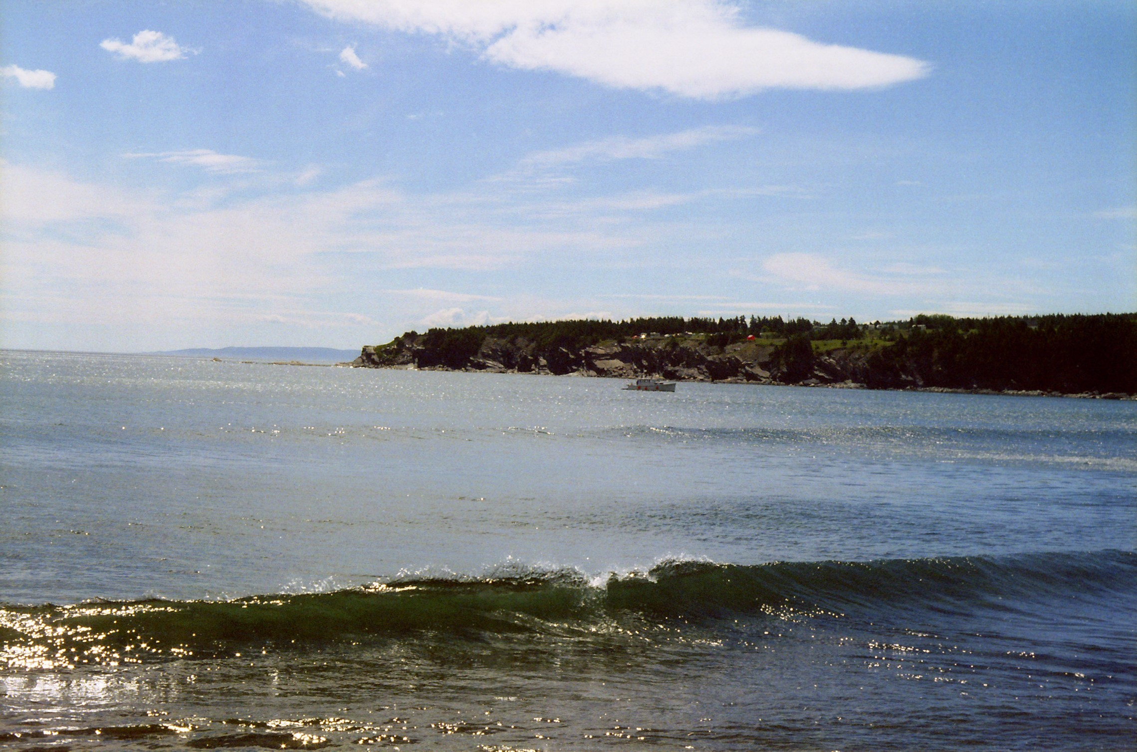 Northern Bay Sands Sparkling Surf, Newfoundland, Canada